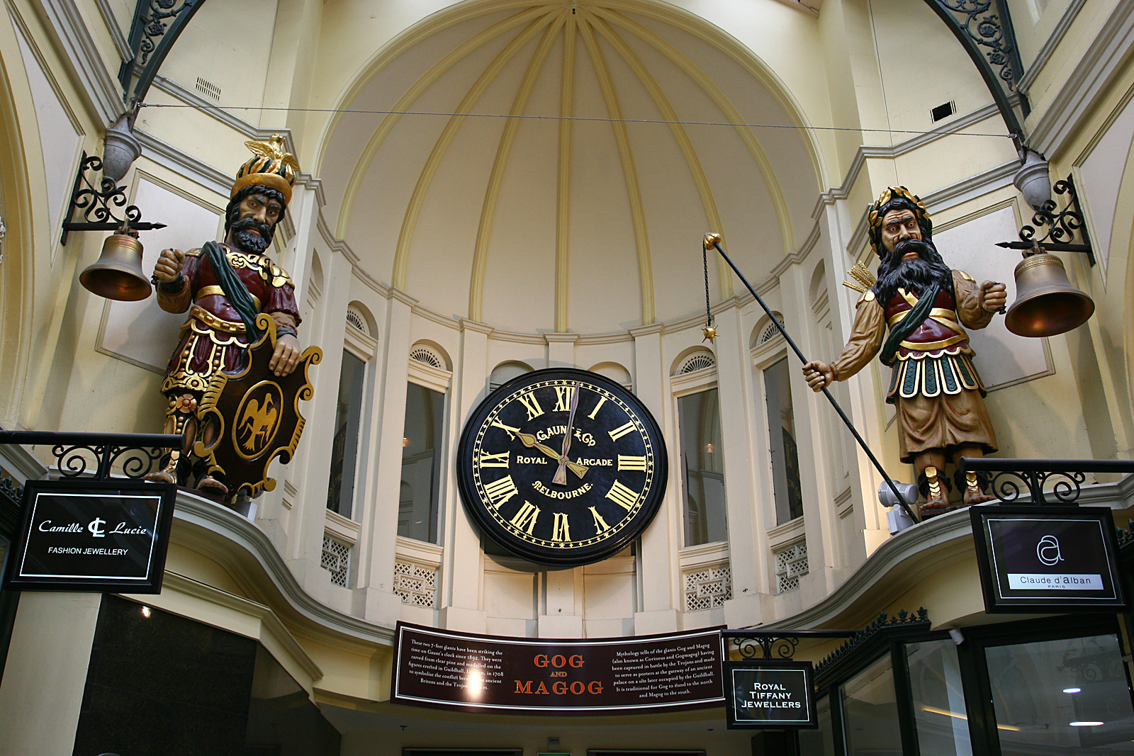 Gog and Magog statues at Gaunt's clock in the Royal Arcade, Melbourne, Australia - erected 1892. These figures are modelled on those at Guildhall, London, originally erected in 1708, and based on the traditional British myths of the conflict between the ancient Britons and Trojans.